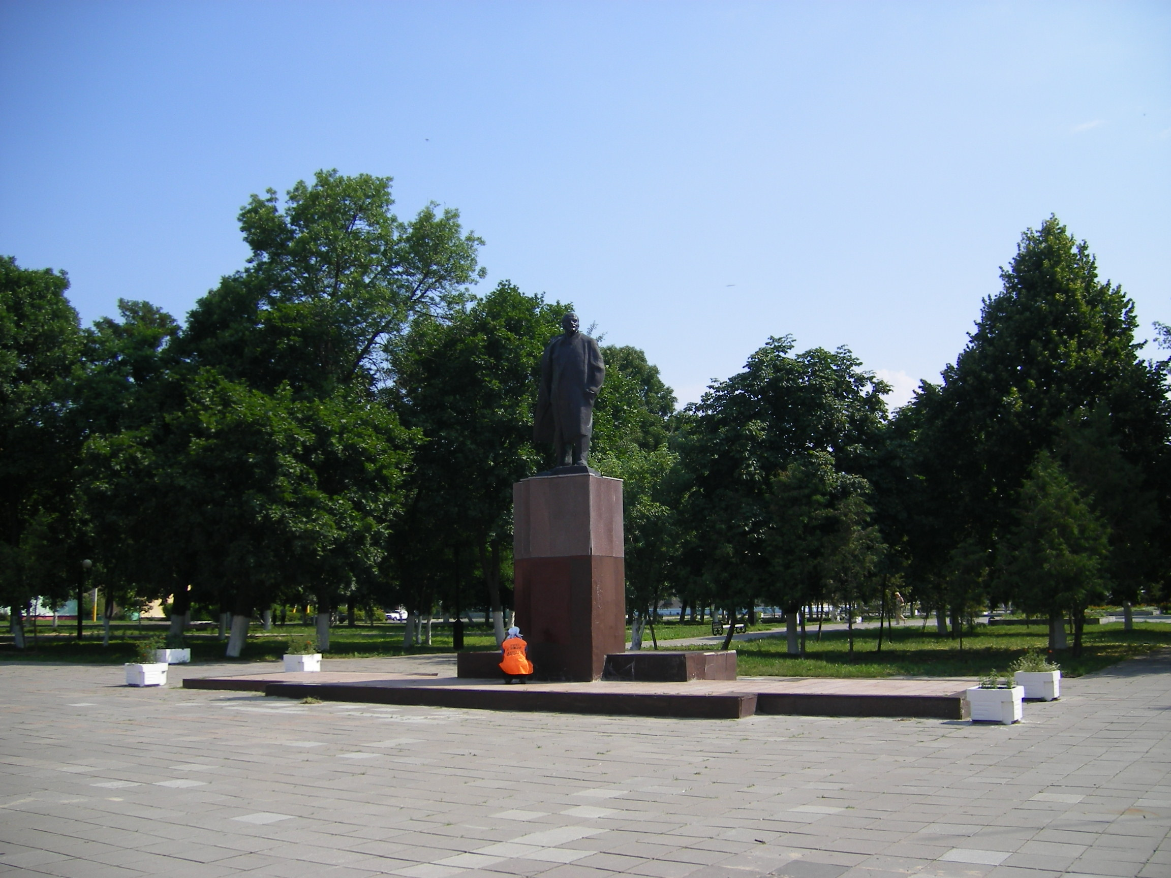 Monument to Vladimir Lenin on the central square in Vietka town (Gomel Region)